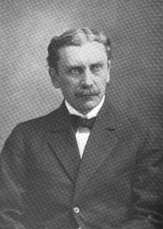 American ethnologist James Mooney (1861–1921)